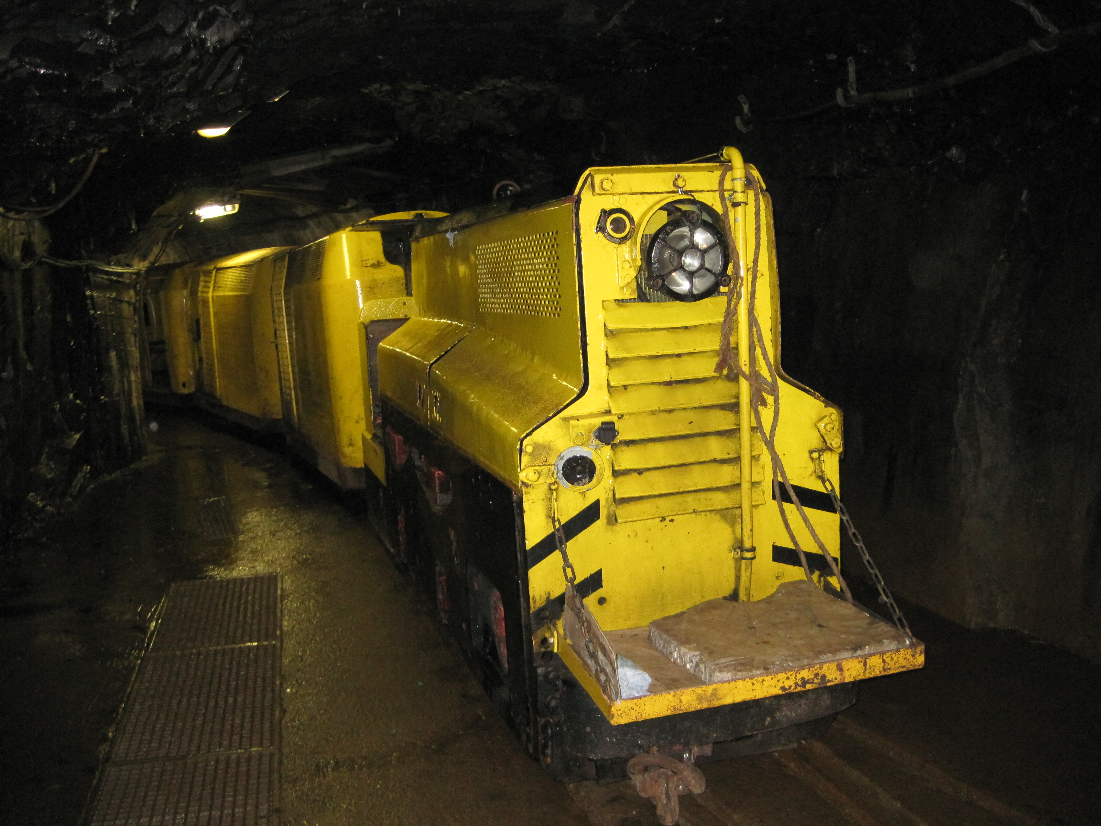 Train at Kilianstollen, Marsberg, Germany check usage